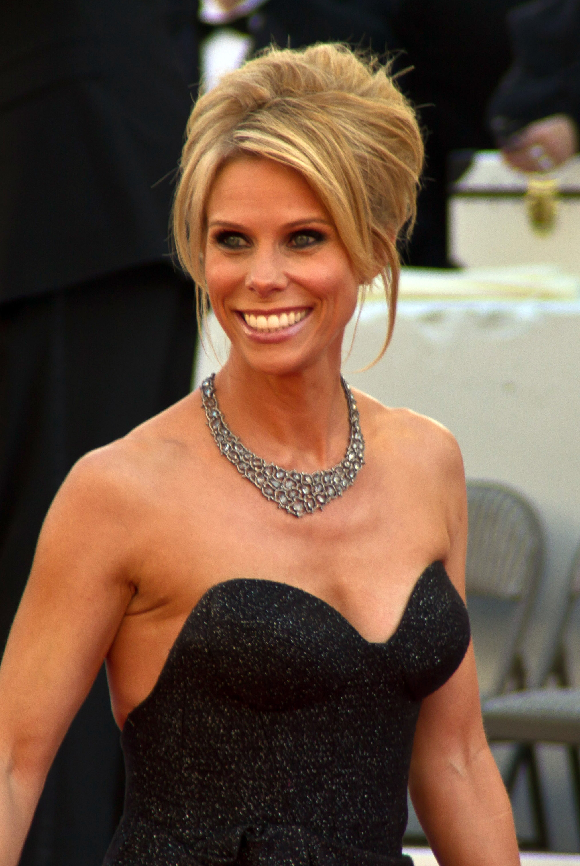 Actress Cheryl Hines at the 83rd Academy Awards.